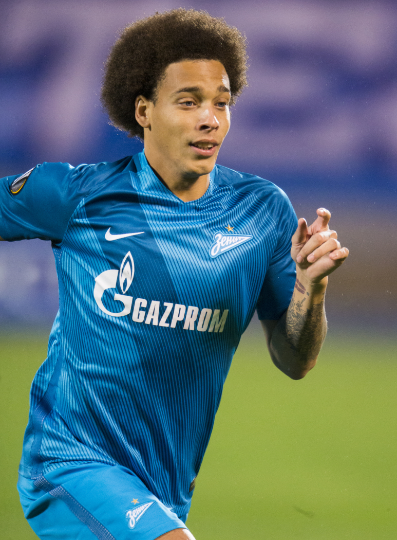 Axel Witsel